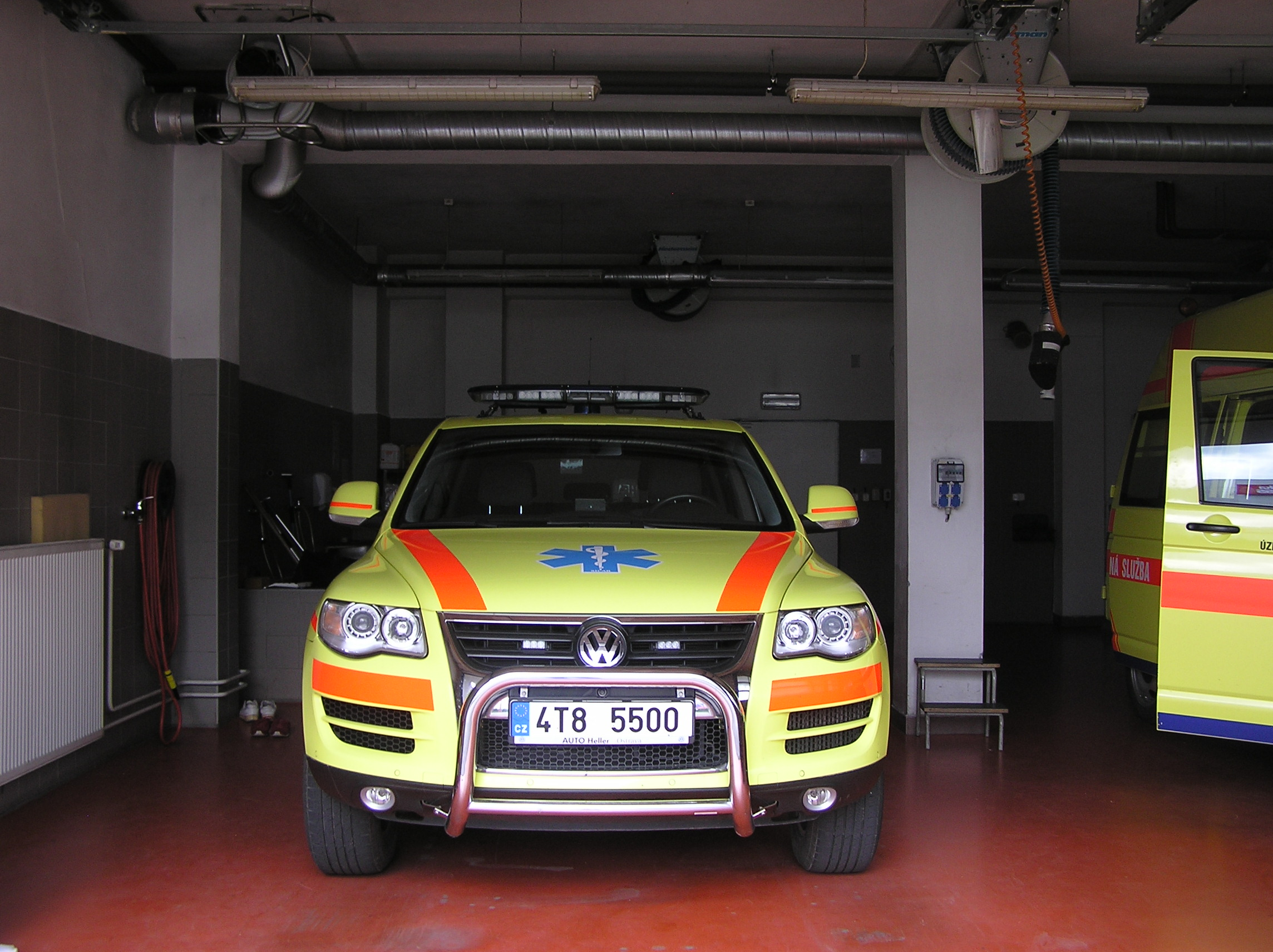 Ambulance vehicle (Volkswagen Touareg) of the Emergency Medical Services of the Moravian-Silesian Region, Ostrava, Czech Republic